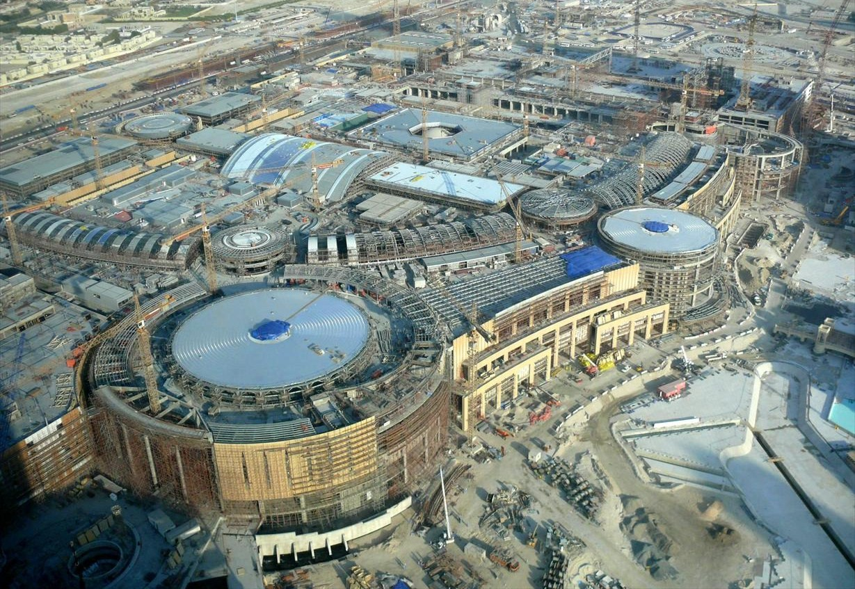 This is a photo showing the construction of Dubai Mall, located in Downtown Dubai in Dubai, United Arab Emirates, on 27 November 2007. The photo was taken from the 76th floor of the Burj Dubai.